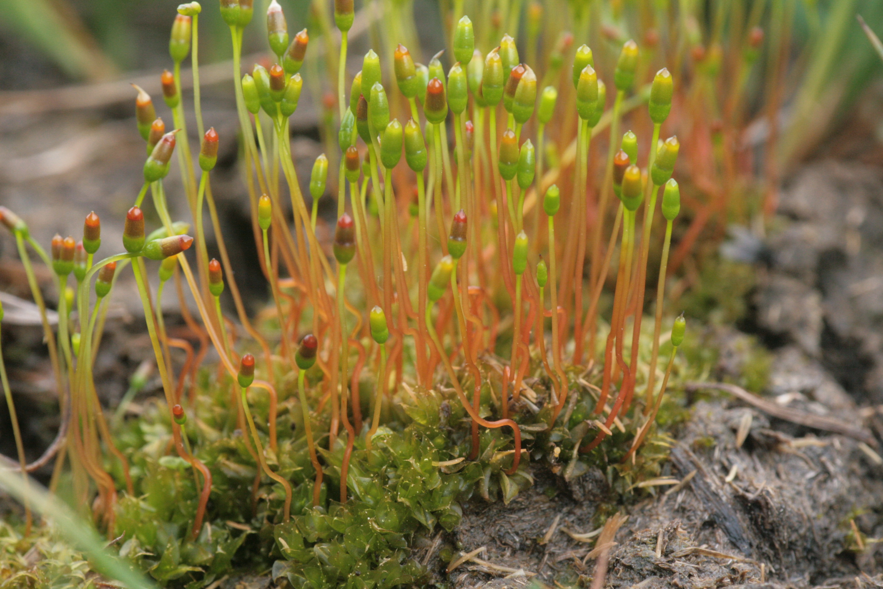 Splachnum sphaericum